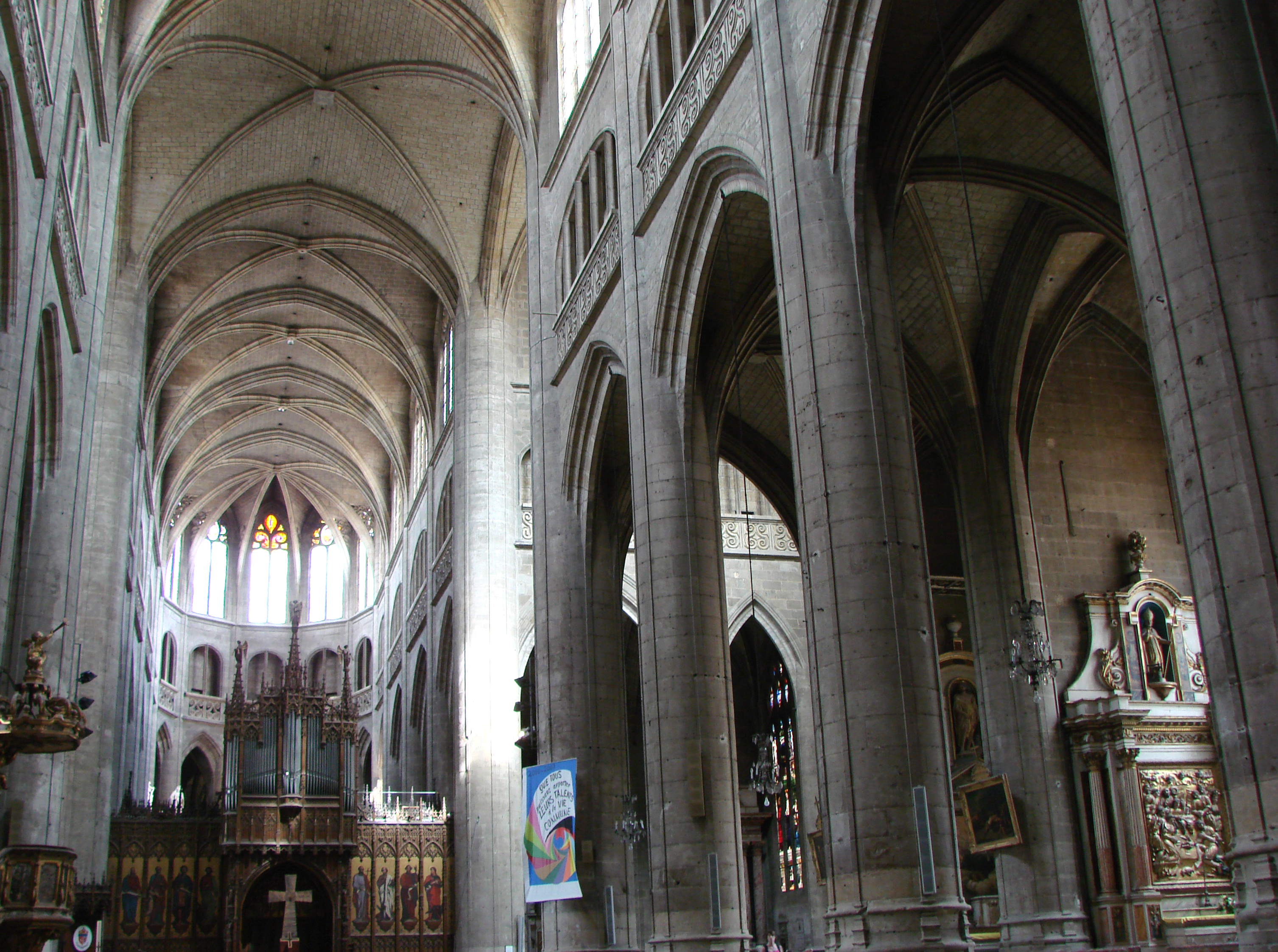 Auch cathedral, France